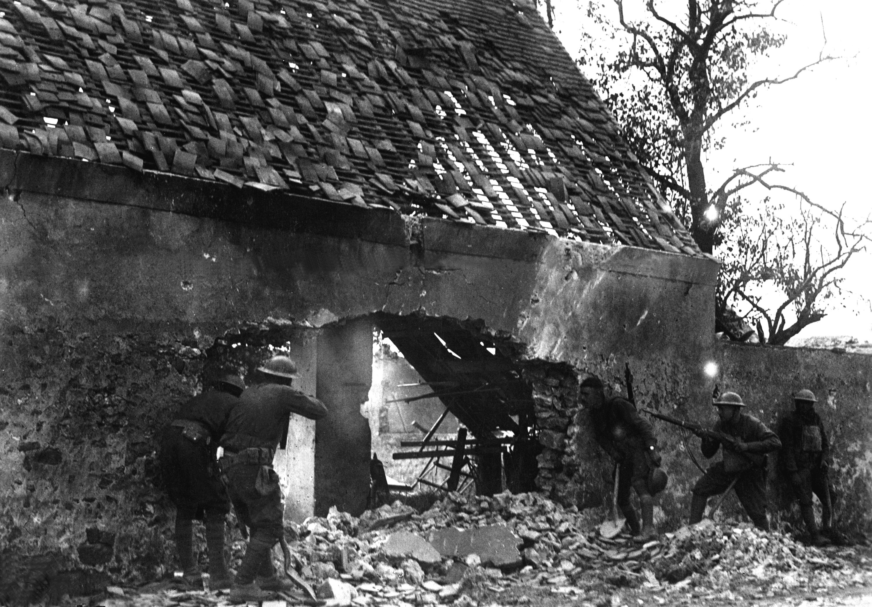 American snipers of the 166th Infantry (formerly 4th Infantry, Ohio National Guard), in nest picking off Germans on the outer edge of town. Villers sur Fere, France. ID: HD-SN-99-02274